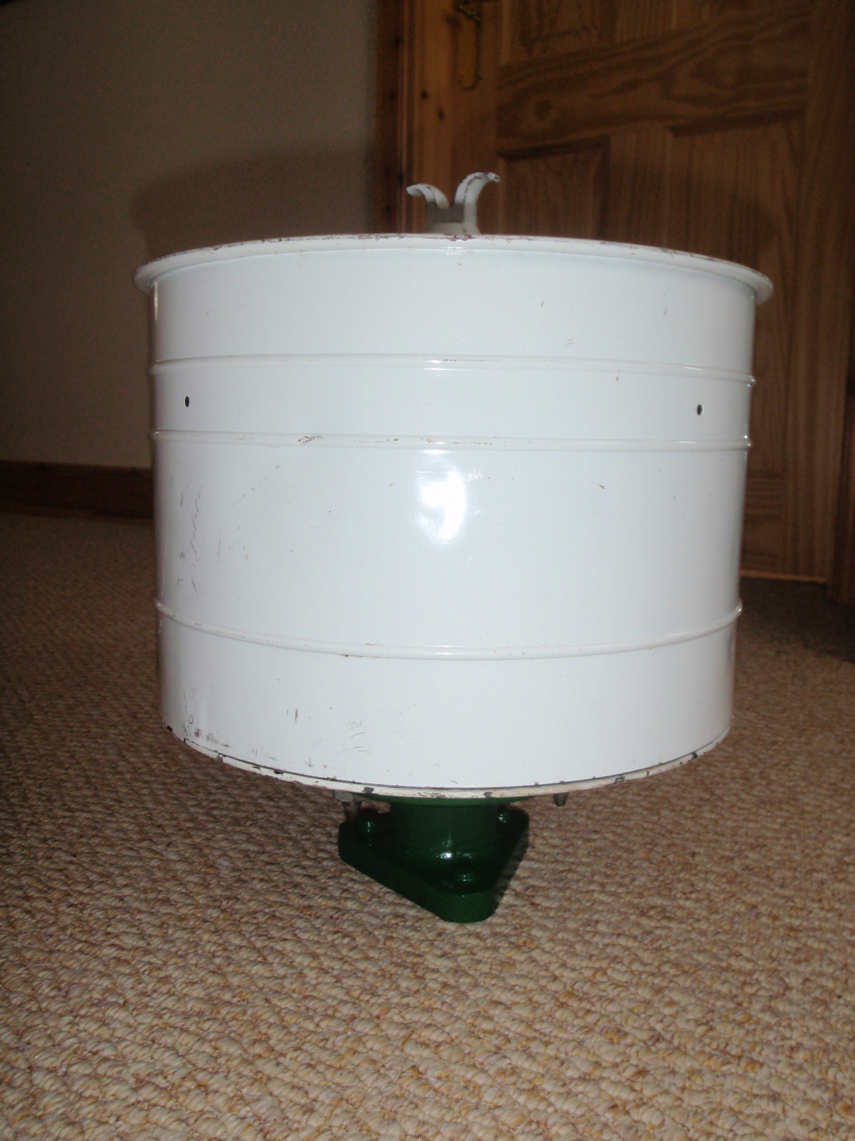 Photo showing GZI with lid in place.